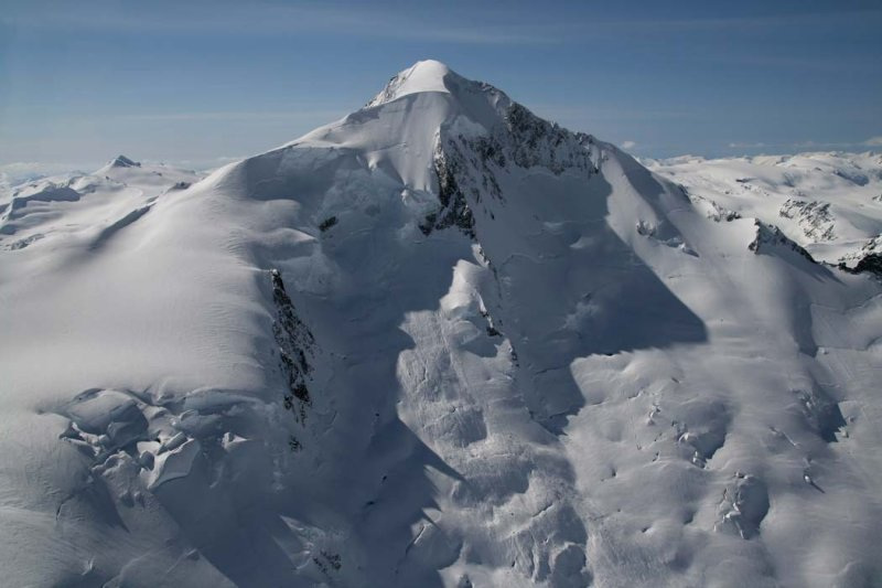 Northeast face of Silverthrone Mountain in the Ha-Iltzuk Icefield of southwestern British Columbia, Canada